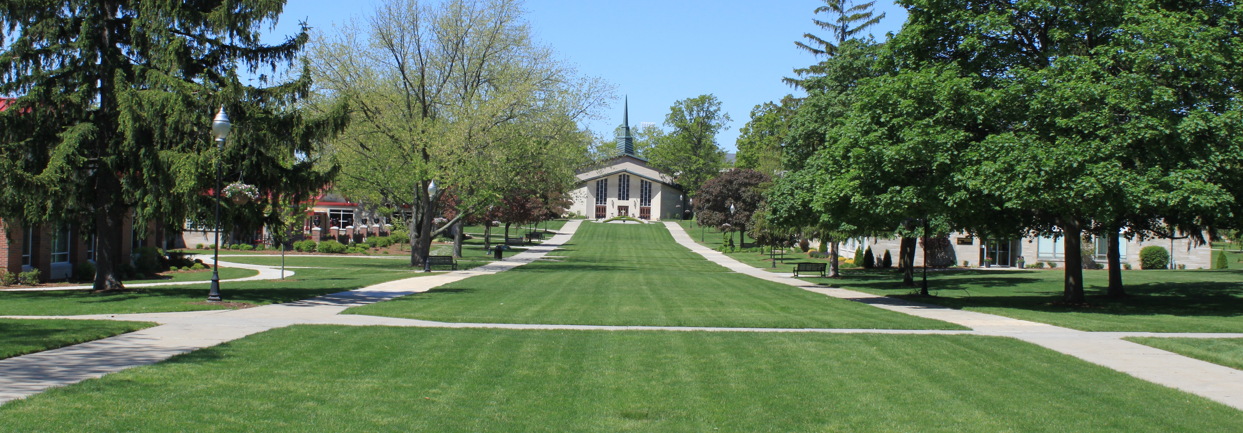 Herrick Chapel, Adrian College, Adrian Michigan